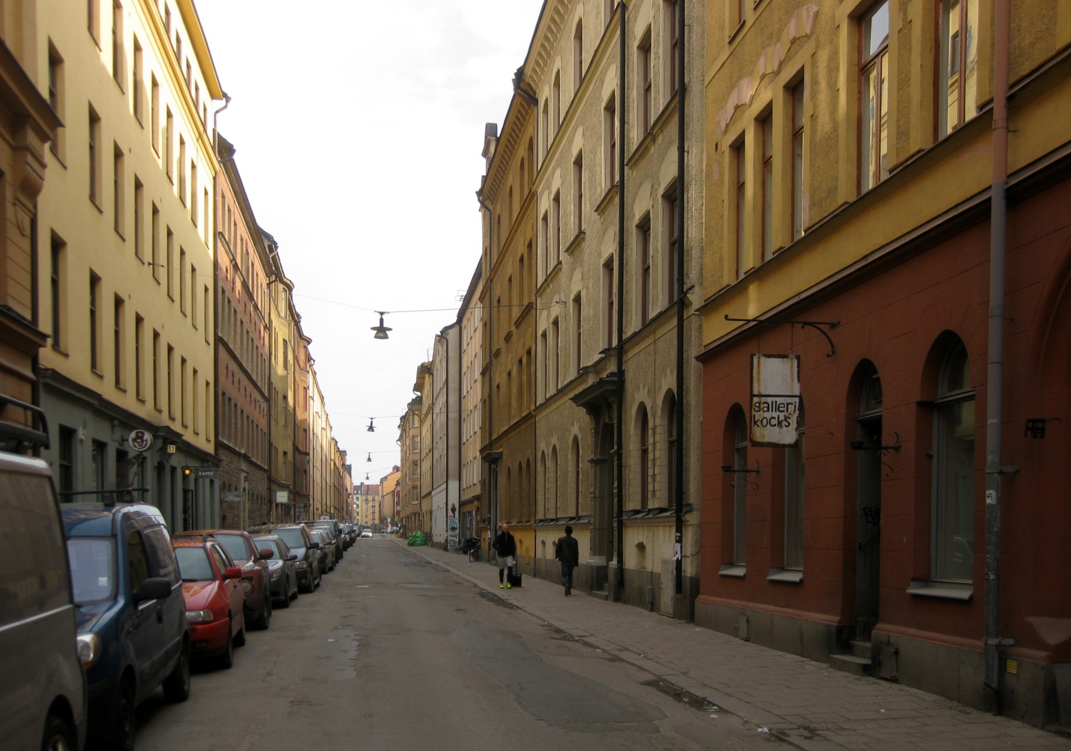 The street called Kocksgatan in the district Södermalm in Stockholm, Sweden.